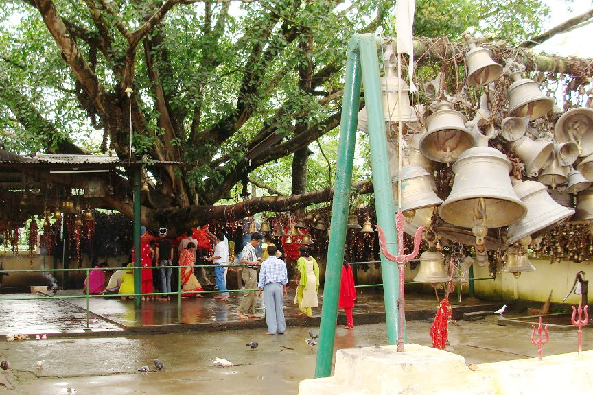 Tilinga-Temple(bell temple) tinsukia